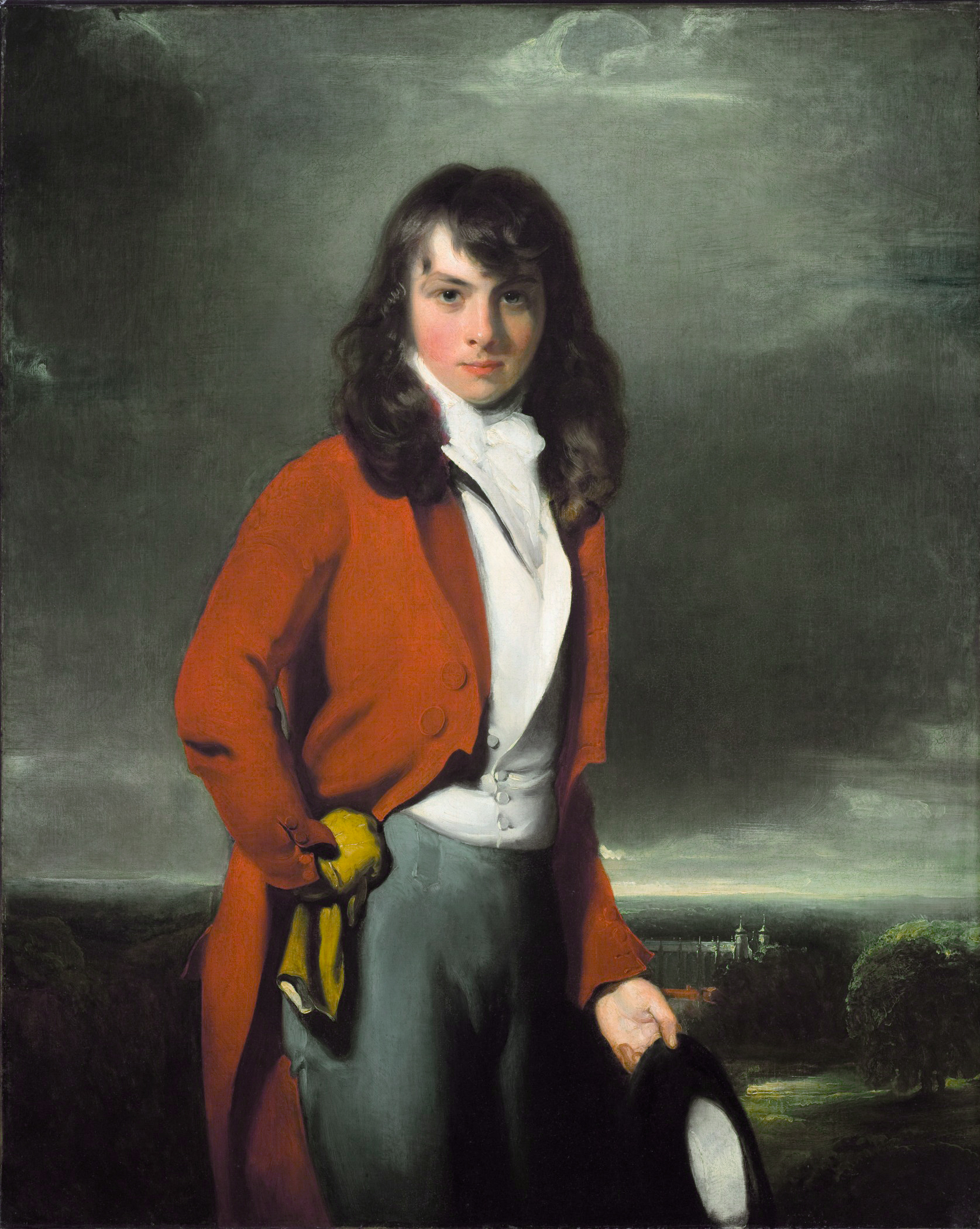 Portrait of Arthur Atherley as an Etonian